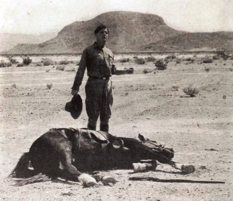 Still from the American western film The Coast of Opportunity (1920) with J. Warren Kerrigan and his dead horse, on page 76 of the January 8, 1921 Exhibitors Herald.